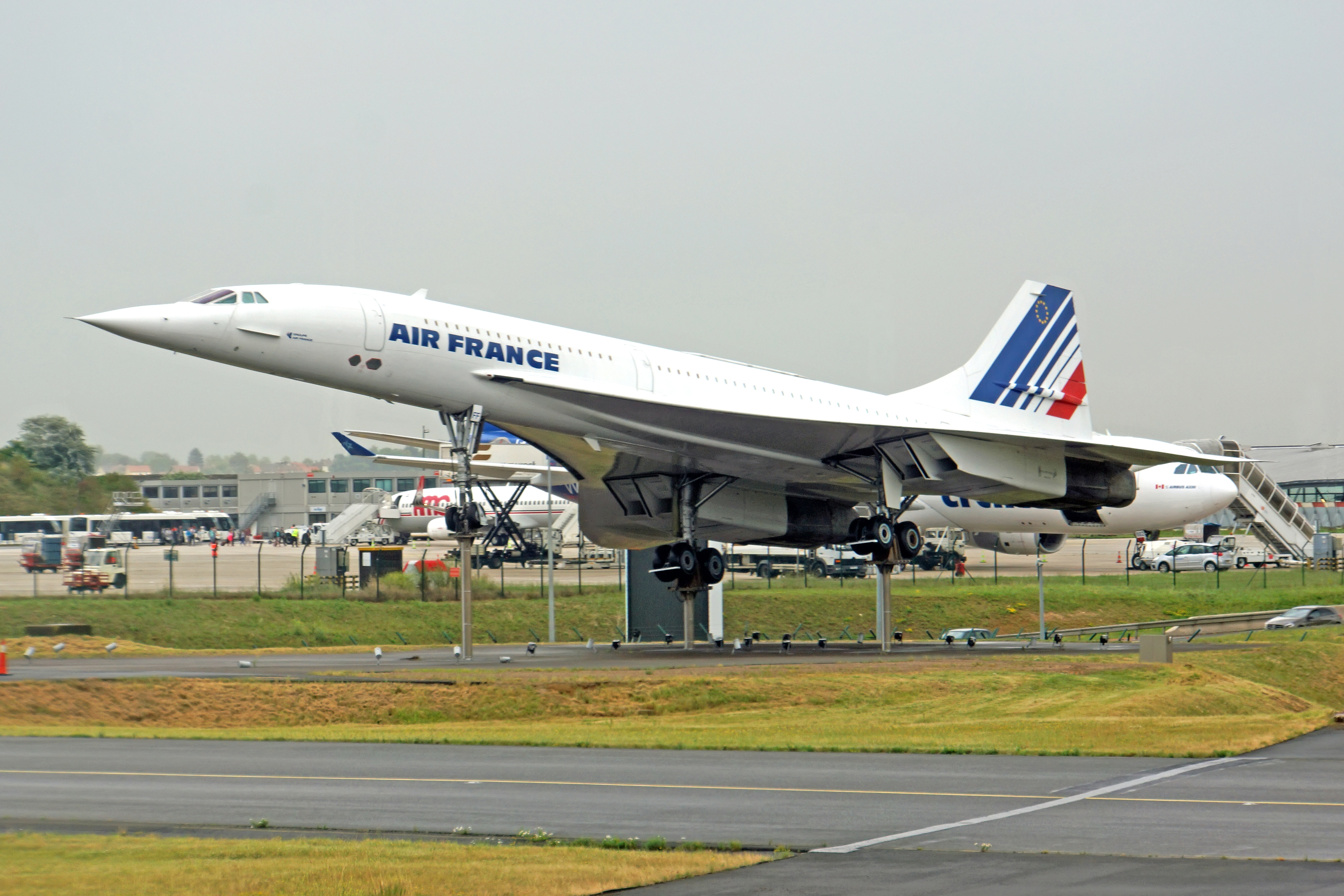 PLEASE, NO invitations or self promotions, THEY WILL BE DELETED. My photos are FREE to use, just give me credit and it would be nice if you let me know, thanks. This was taken from my plane, as I was heading home. I was really surprised to see a Concorde on display beside the runway, wow. I do hope that you have all enjoyed the trip around France and maybe have seen somethings that you have not experienced before. F-BVFF (215) first flew on 26 December 1978 from Toulouse. It remains on display at Charles de Gaulle International Airport, after the withdrawal of the Concorde was announced. It last flew on a charter flight to Paris Charles de Gaulle on 11 June 2000 after flying 12,421 hours.